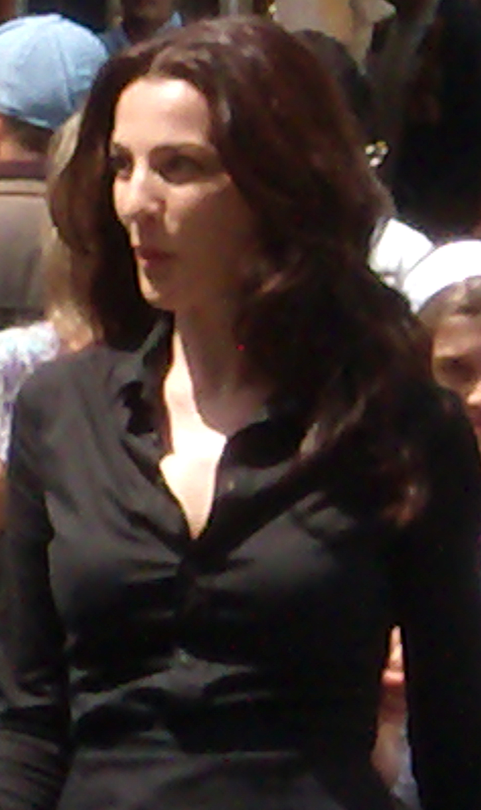 Ayelet Zurer outside of the Pantheon in Rome during production of Angels & Demons.